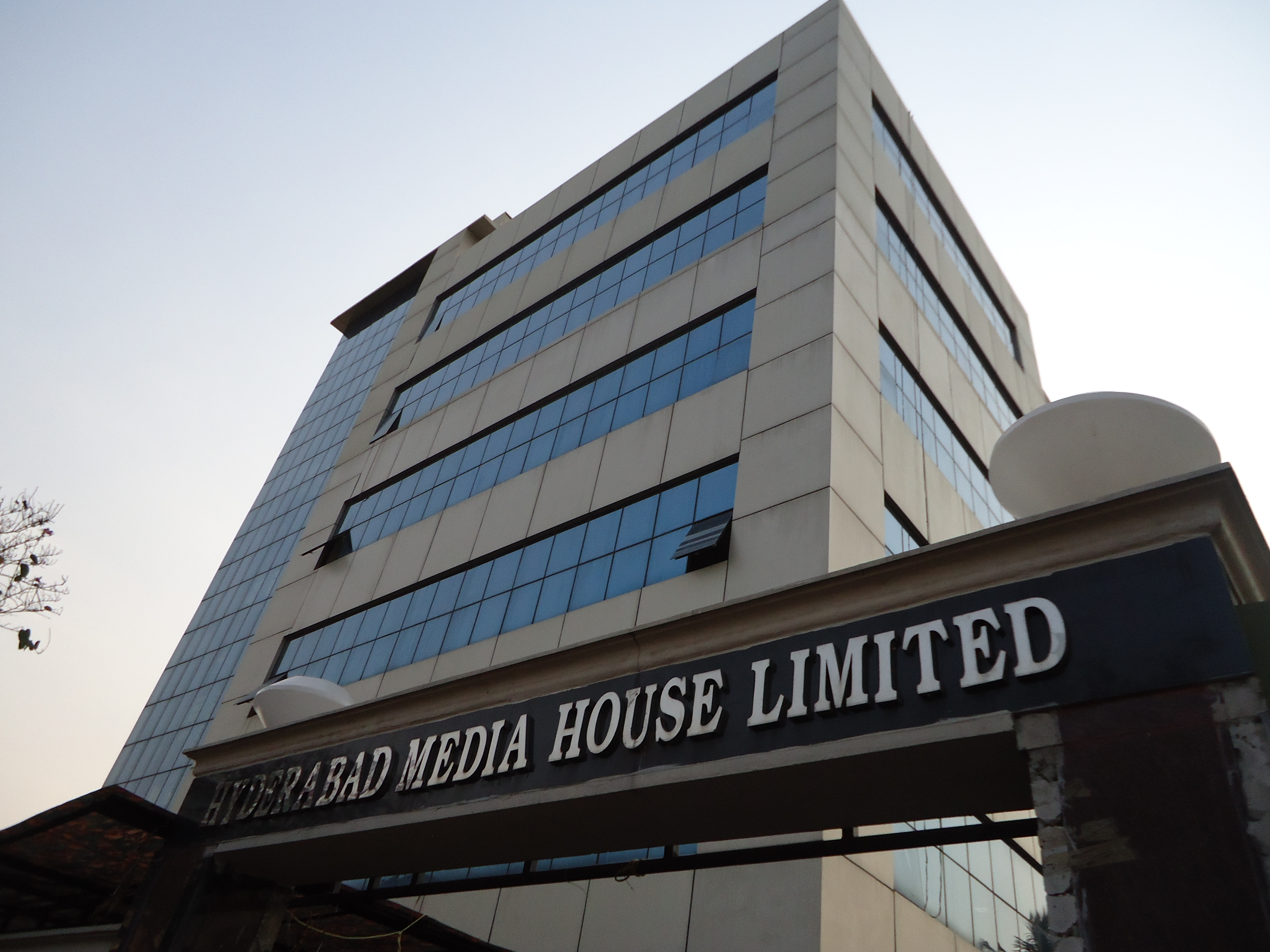 Office of the HMTV Media House which houses the channel and HANS India Newspaper.